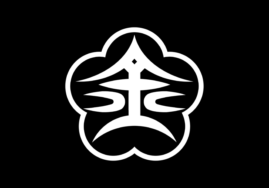 Flag of Kanazawa, Ishikawa